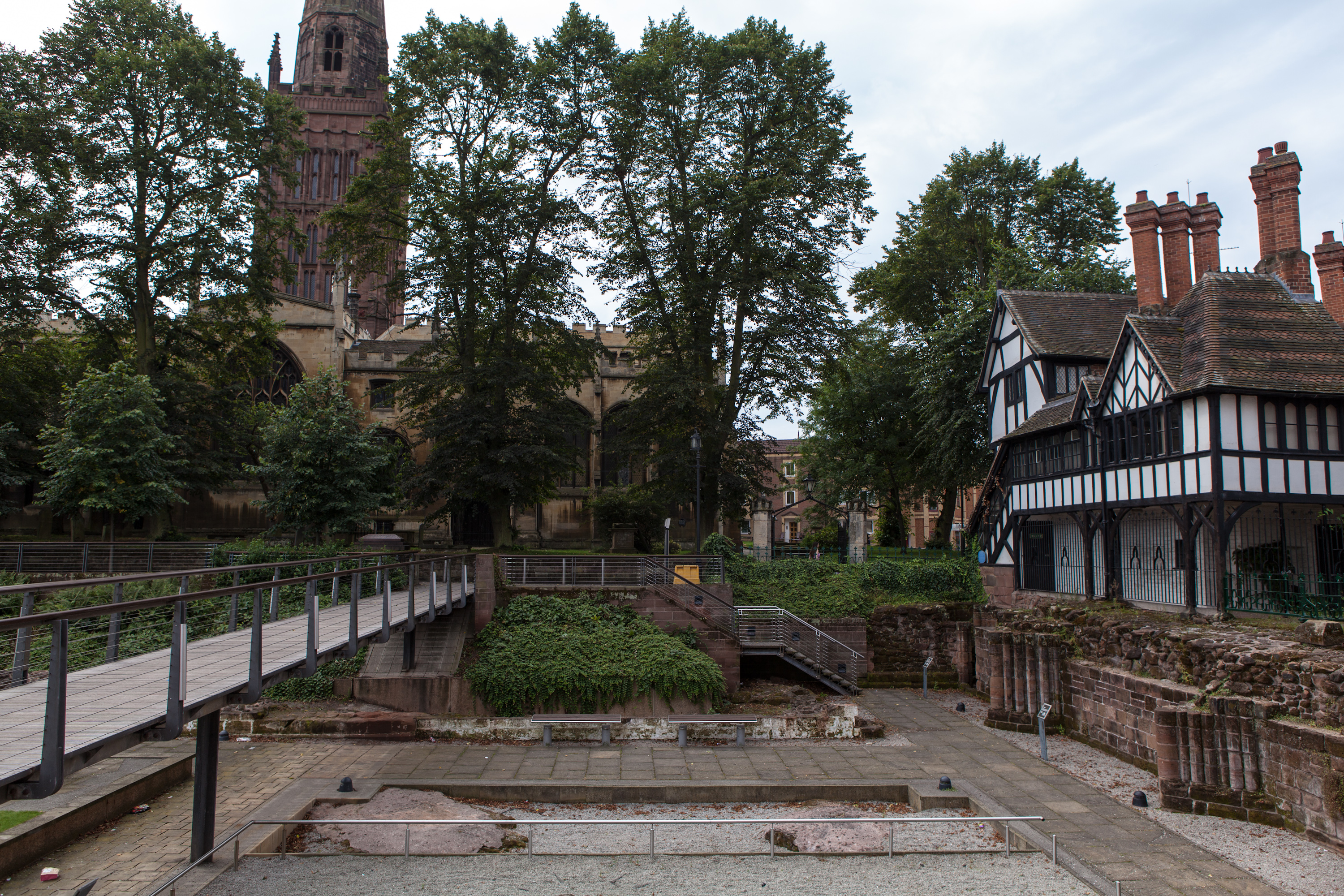 A6 - Priory Gardens and Ruins in Coventry, UK